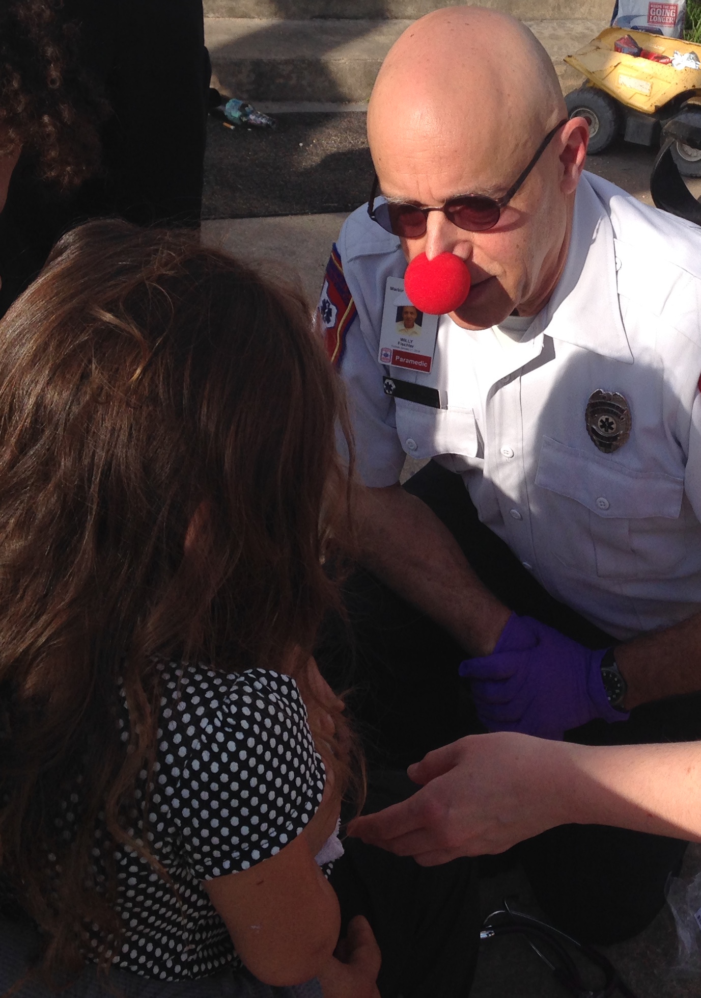 Willy Fischler attending patient.